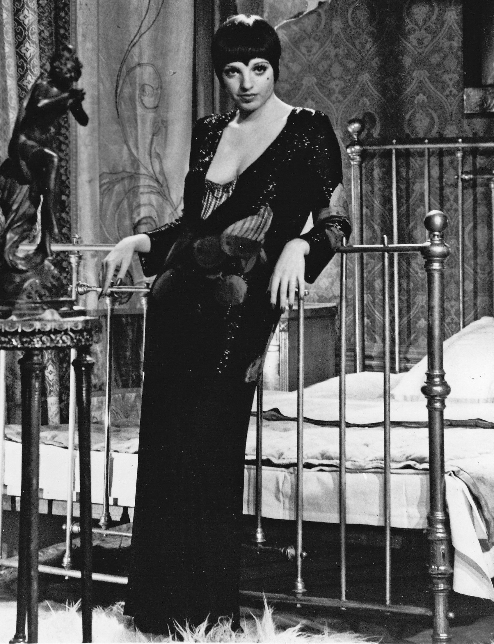 Photo of Liza Minnelli as Sally Bowles from the film Cabaret.